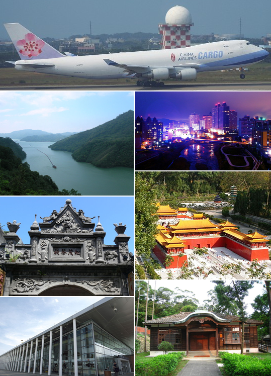 Montage of Taoyuan City images.